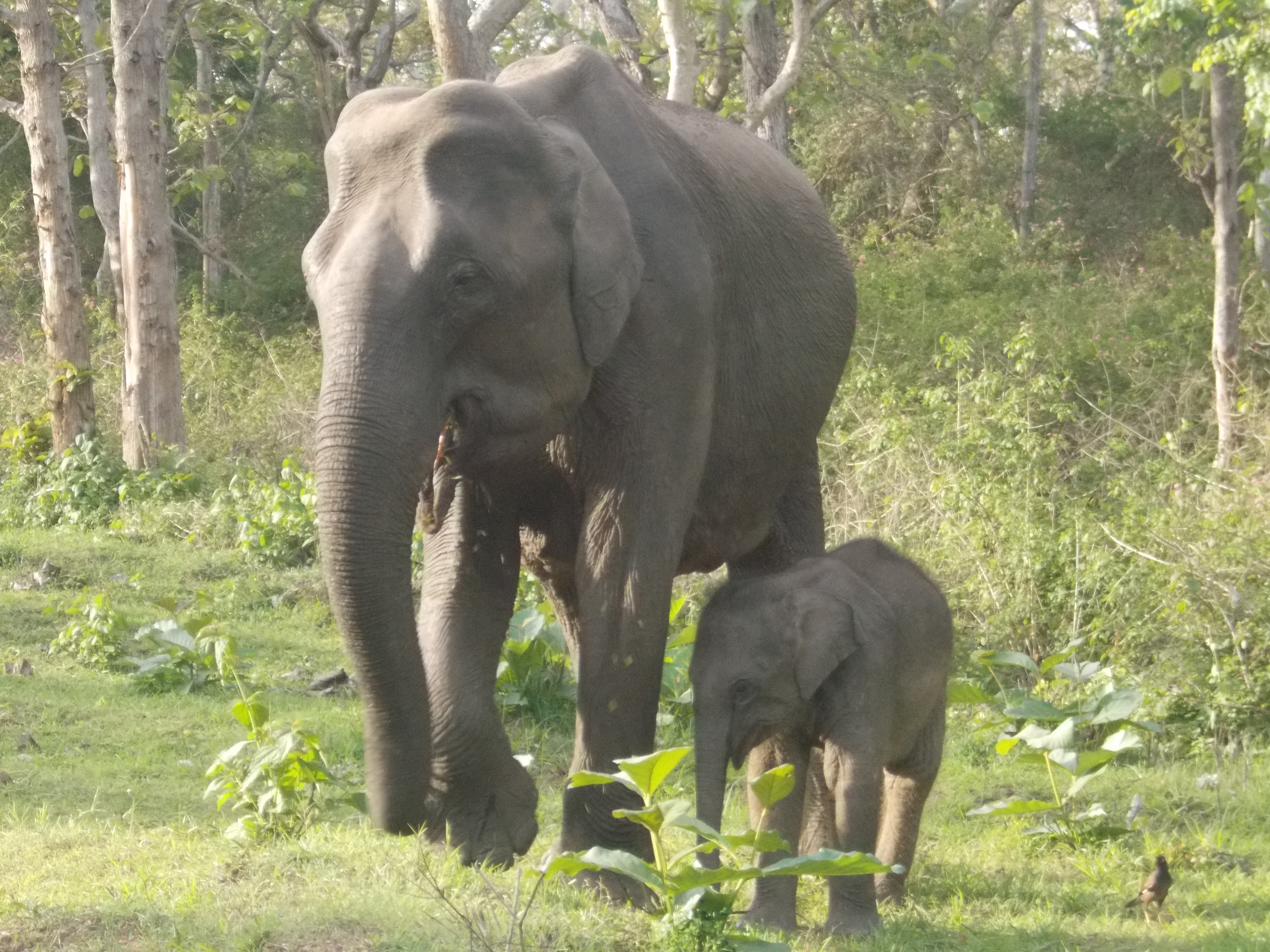 Elephant with her calf, Mudumalai National Park, Mysore Ooty Road